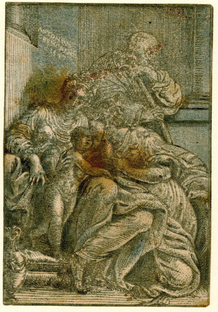 Antonio_da_Cremona Woodcut, 1547 (British Museum)